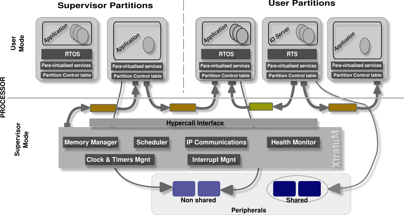 Description of the XtratuM hypervisor architecture